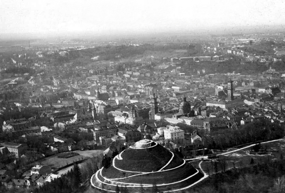 Union of Lublin Mound, Lviv, mid-1930